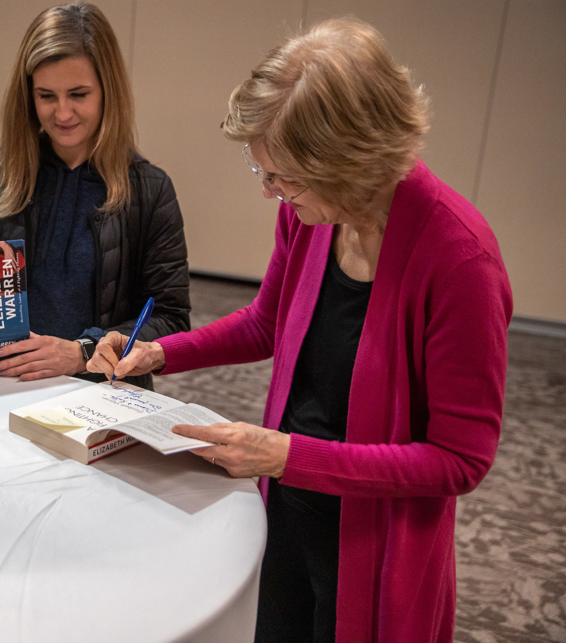 Senator Elizabeth Warren holds a Town Hall at Grand River Conference Center in Dubuque, IA on Saturday, January 4th, 2020.